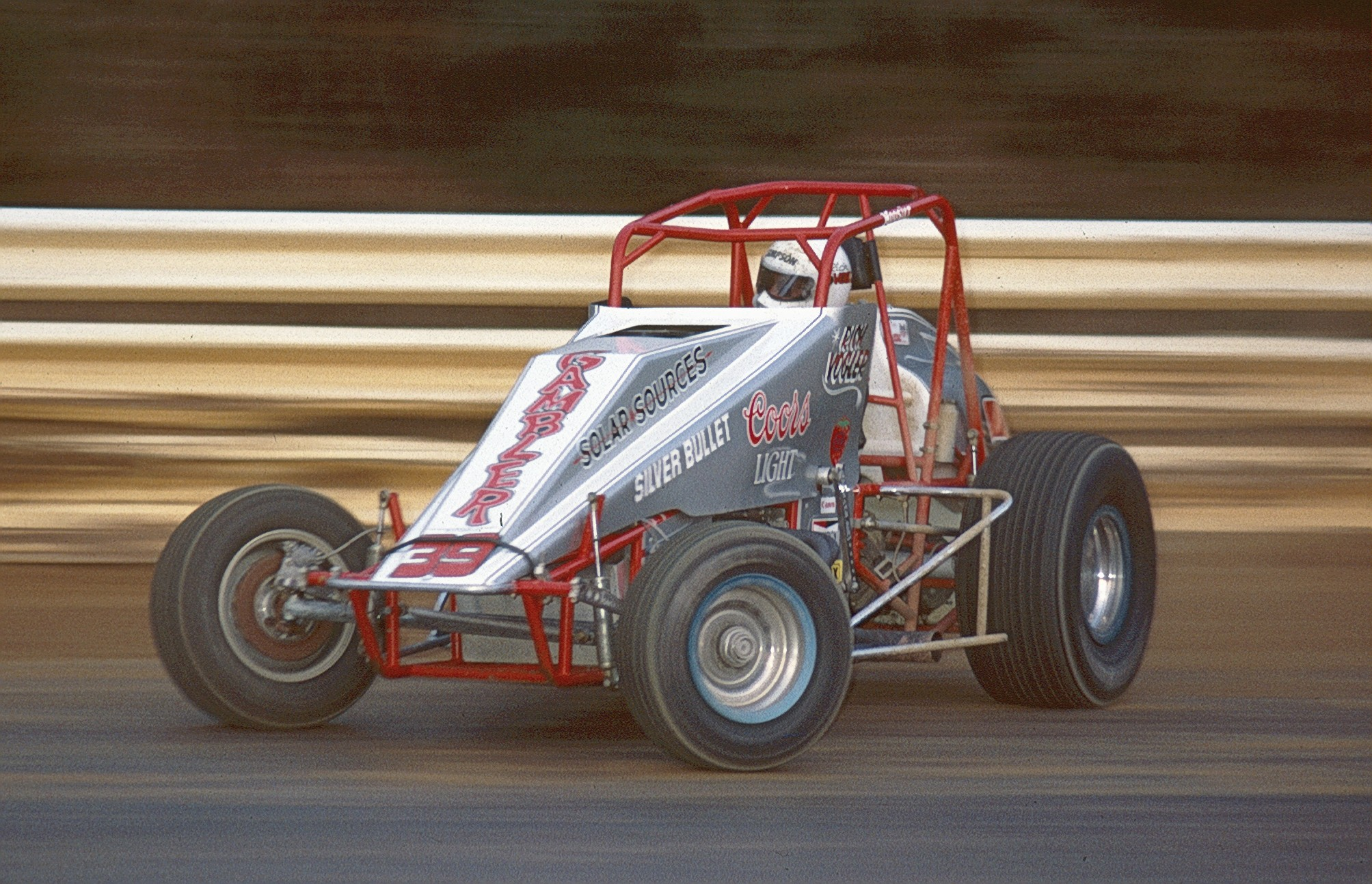 USAC Sprint car racing driver Rich Vogler. 1986 Photo by Ted Van Pelt